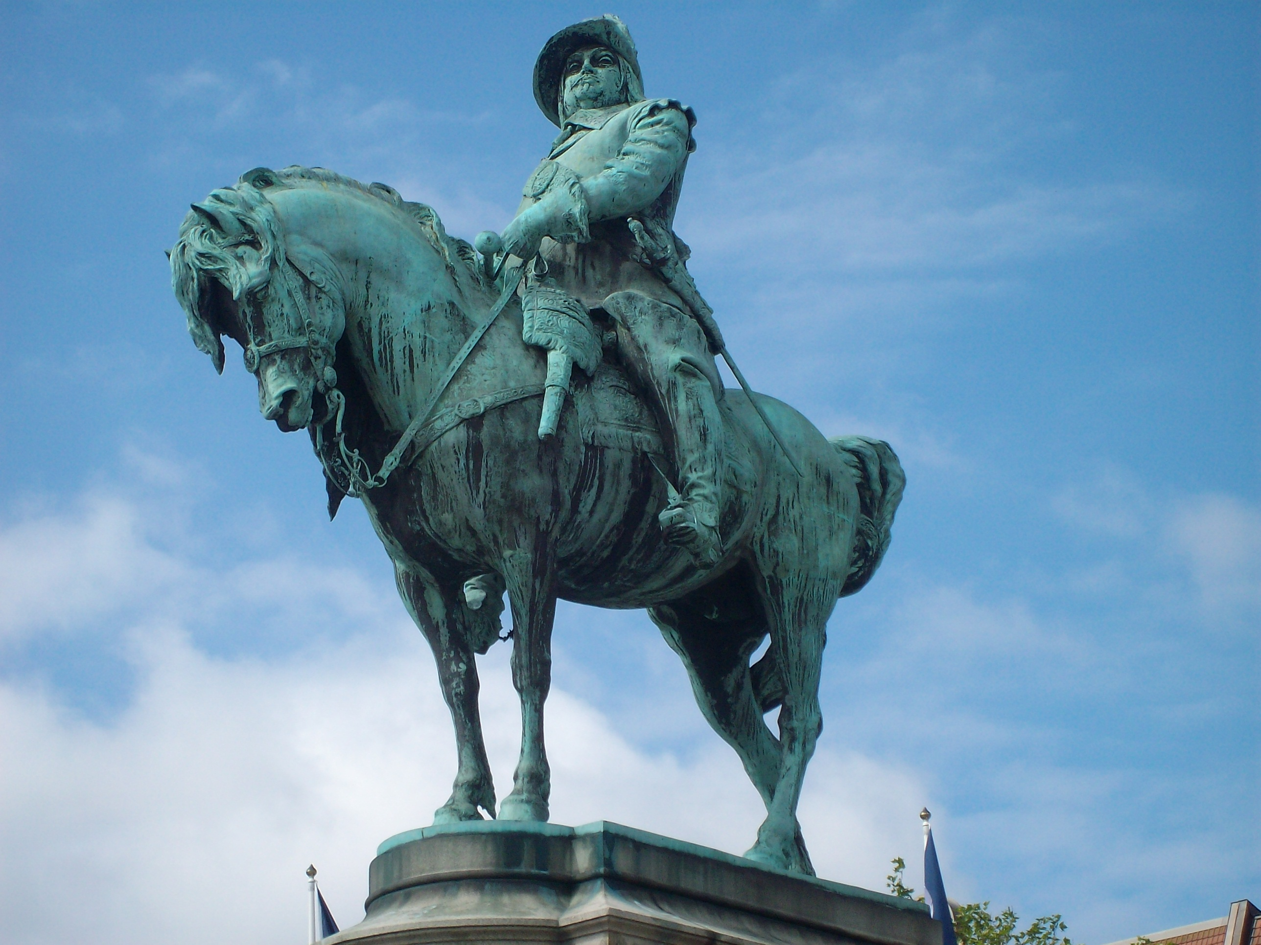 Statue of King Karl X Gustav of Sweden on the town square in Malmö